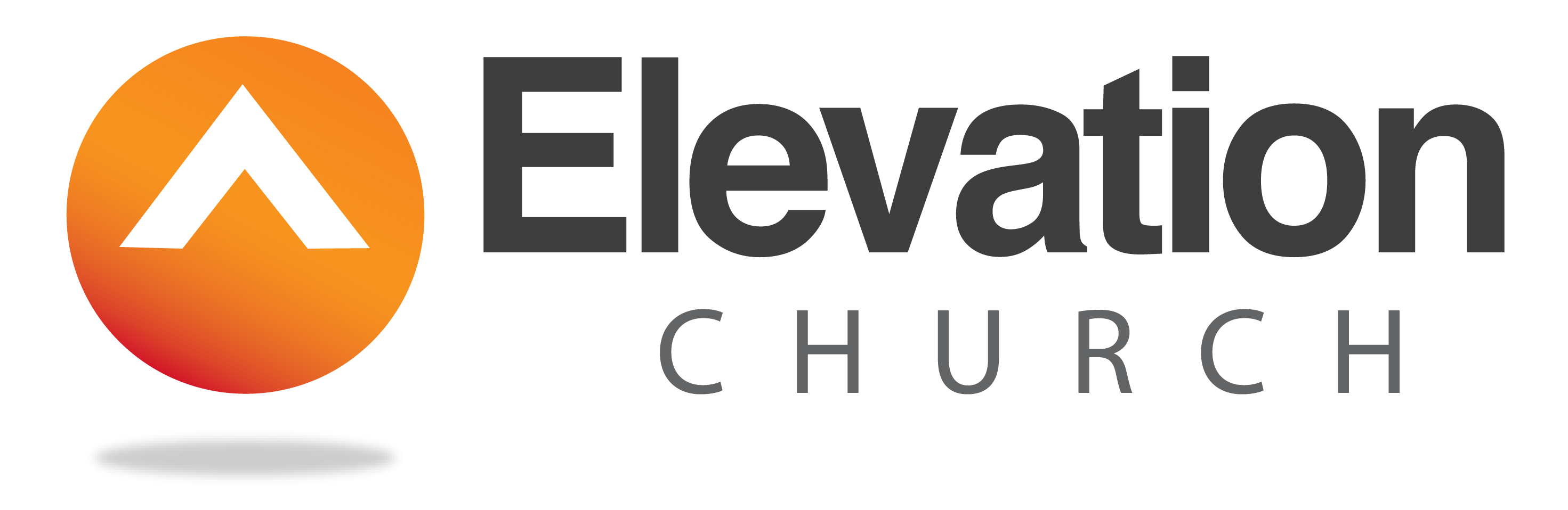 Logo for Elevation Church in Charlotte, NC